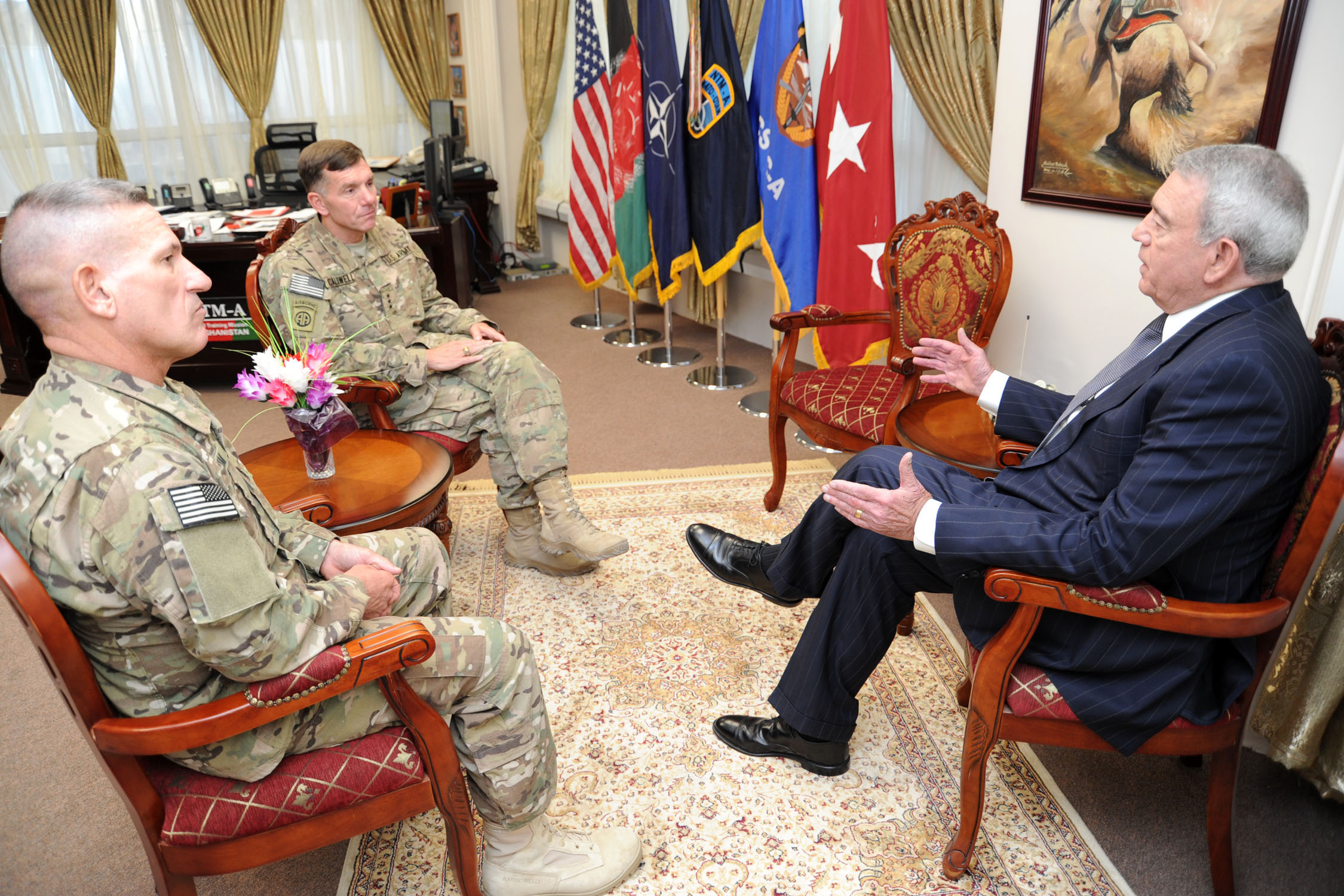 Dan Rather reports: NTM-A and state of transition Dan Rather, anchor and editor of Dan Rather Reports on the cable network HDNet, right, speaks with Lt. Gen. William B. Caldwell, IV, North Atlantic Treaty Organization Training Mission Afghanistan commander, center, and Command Sergeant Maj. Ralph R. Beam, NTMA command sergeant major, left, about the Afghan National Army and Afghan National Police training mission and the tentative 2014 security transition in General Caldwell’s office on Camp Eggers, Kabul, Afghanistan, July 26, 2011. Dan Rather and his HDNet production team toured various training, recruiting, and educational centers around Afghanistan collecting footage for a segment set to air early September this year on the coalition-to-Afghan security forces transition. (U.S. Air Force photo by Senior Airman Kat Lynn Justen)